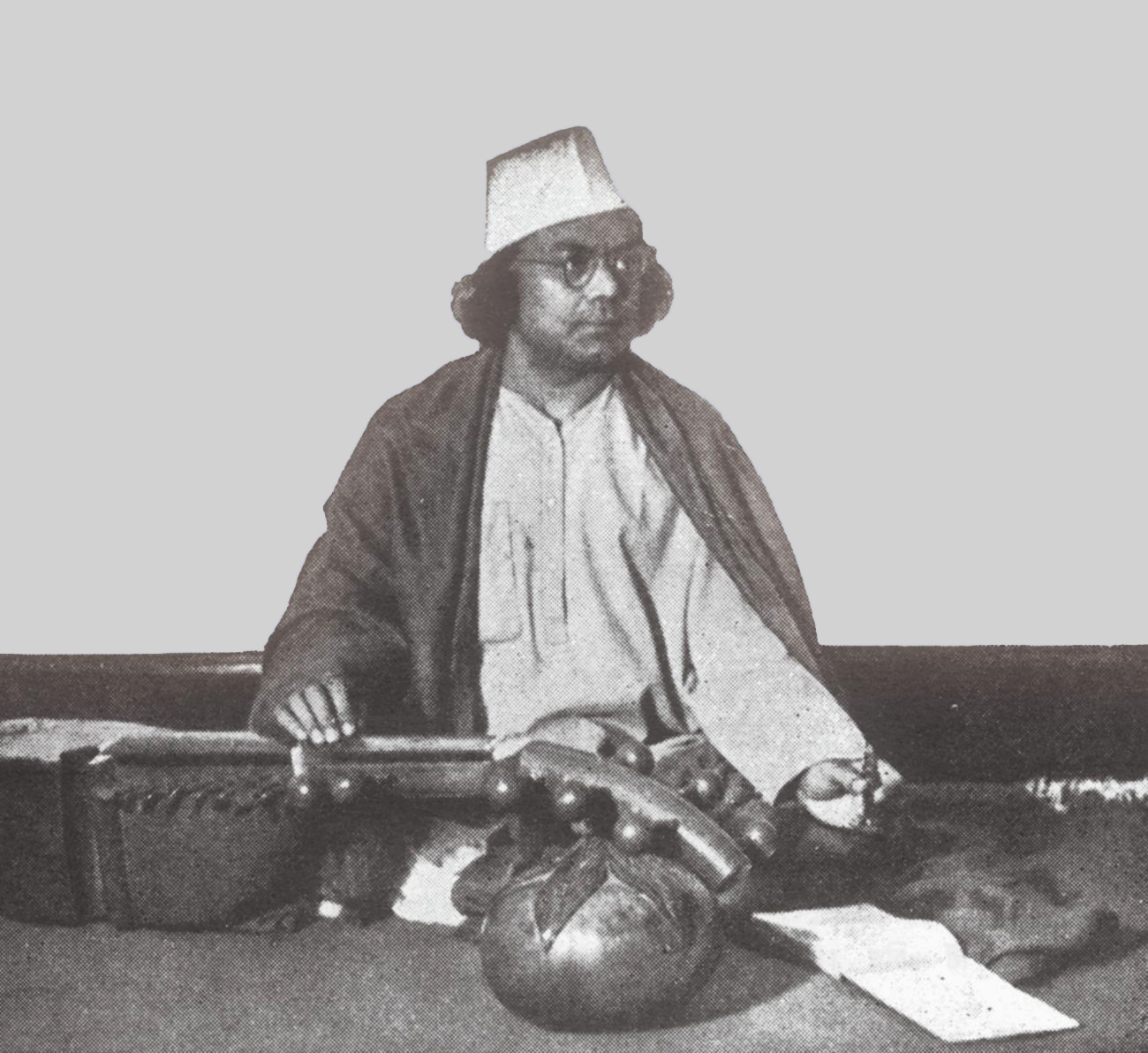 Kazi nazrul islam with Setar (Persian musical instrument)